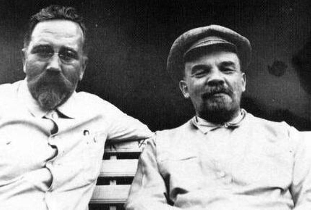 Lev Borisovitch Kameniev and Vladimir Ilyich Lenin about 1922